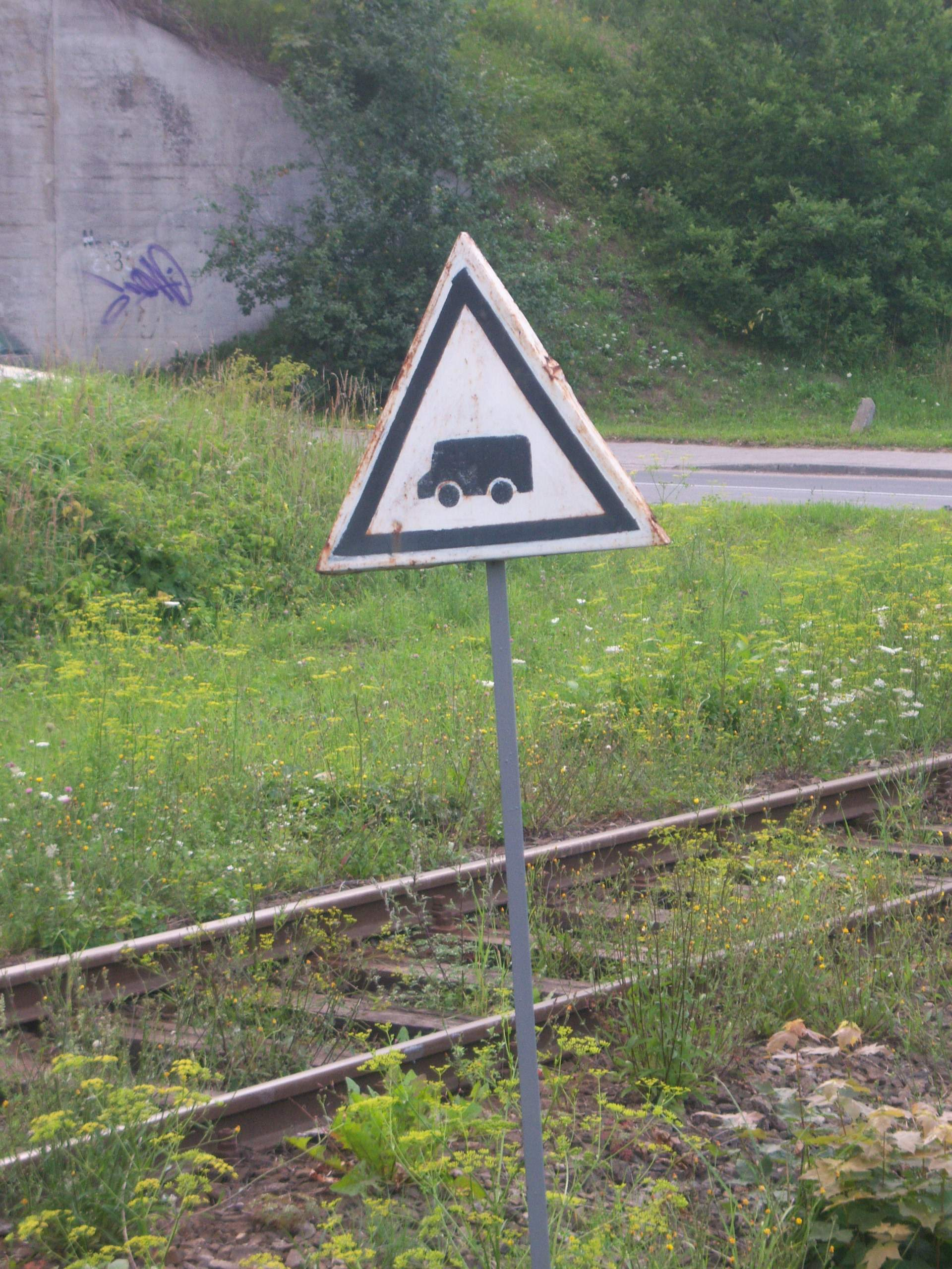 Railway sign "W6a" in Poland